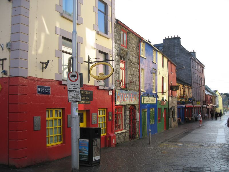 Claddah Ring Museum (left)